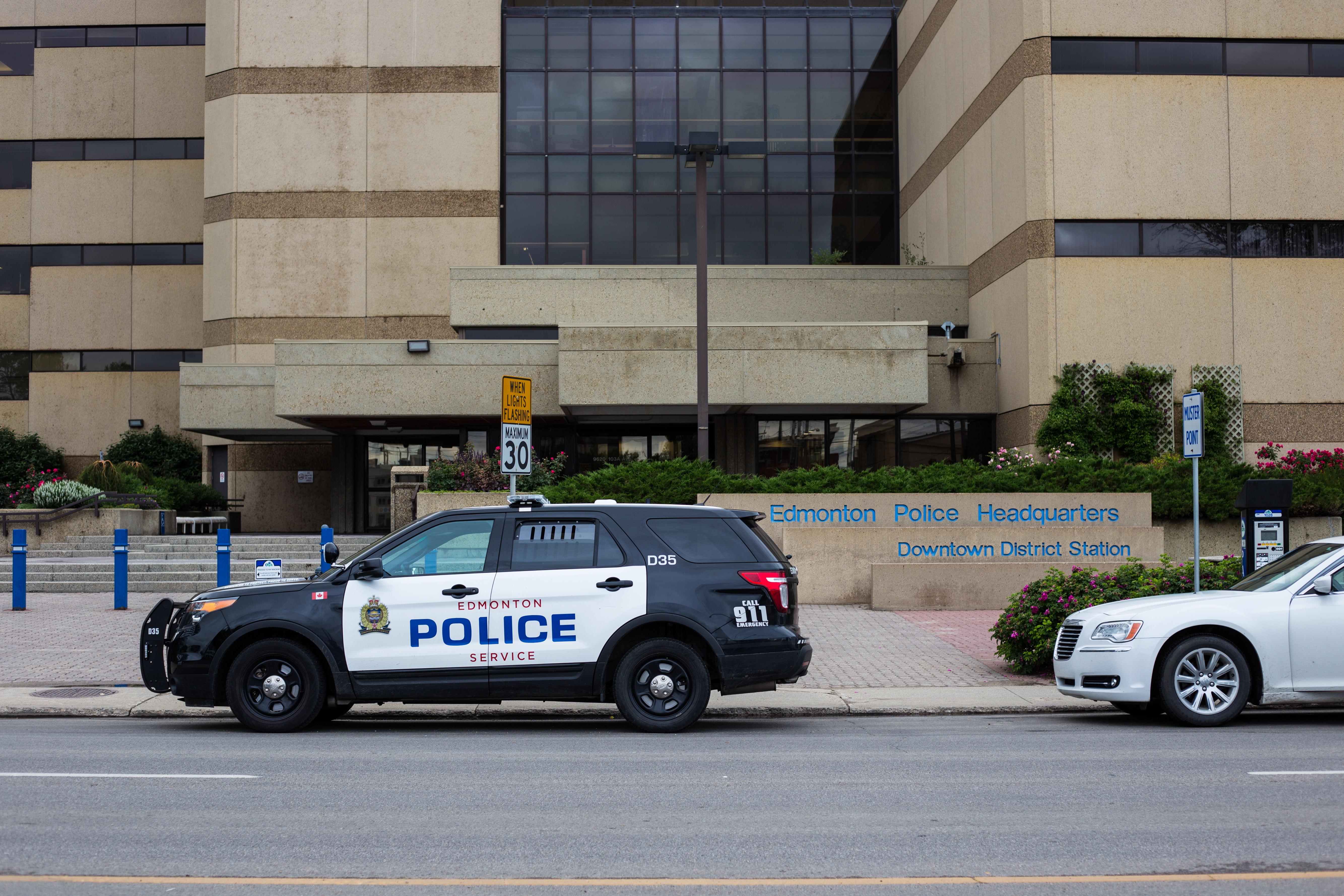 Police car in front of police headquarters in Edmonton, Canada